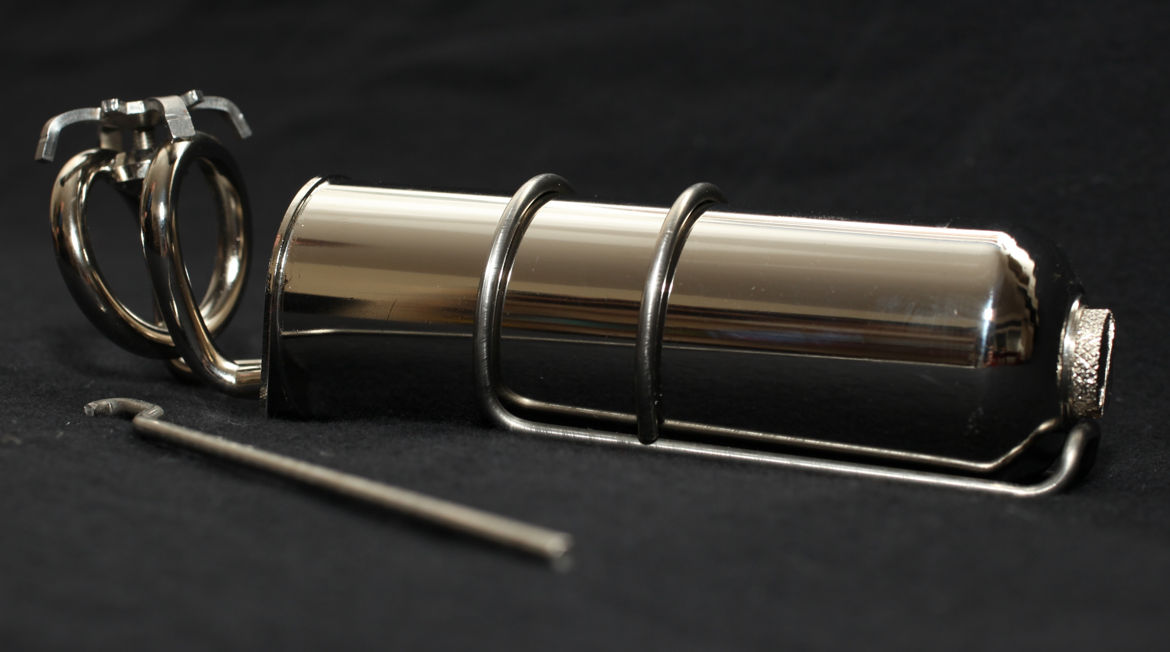 A swiss-made Borde Benzinbrenner. Originally invented by Joseph Borde, it is a self-feeding petrol burner. Weighs 255 grams empty, measures 18x4x5 cm (l, w, h). Fuelled by petrol, kerosene and like.